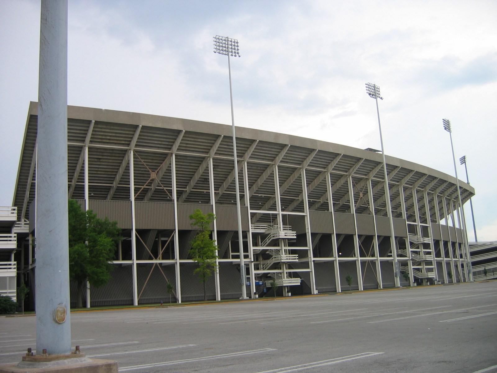 Football & Basketball Facilities U Kentucky Football Stadim